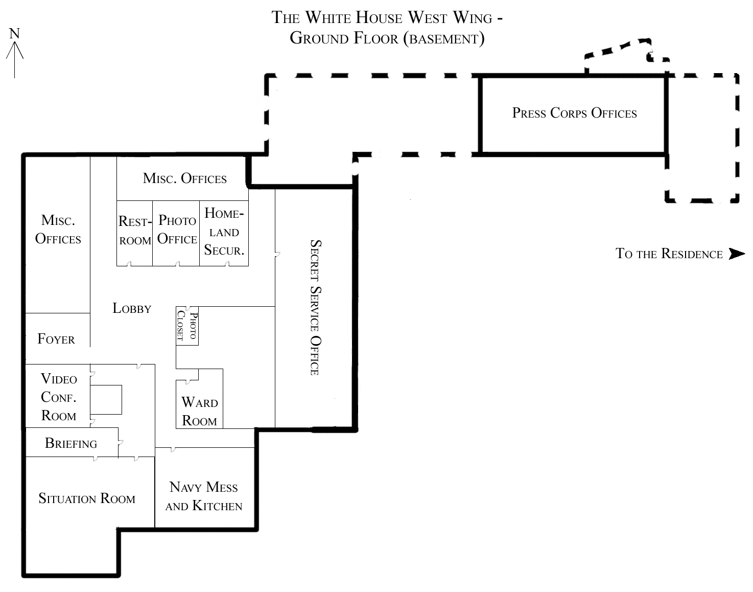 A floorplan of the ground floor (basement) of the West Wing of the White House. Note that, depending on the administration, some positions rooms may be used for different purposes than those shown here. Image is not to scale.